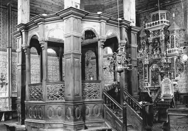 Wooden synagogue in Wolpa (Poland - now Belarus), destroyed by the Germans in 1940.(The Bima)